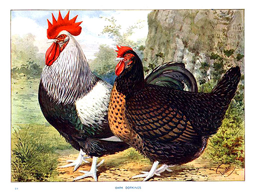 Paint by J.W.Ludlow